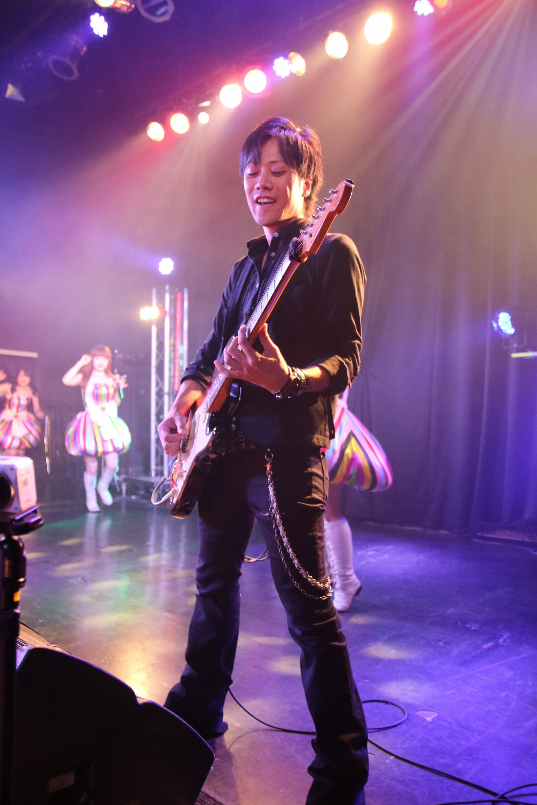 南間優（作編曲家、音楽クリエイター、ギタリスト）